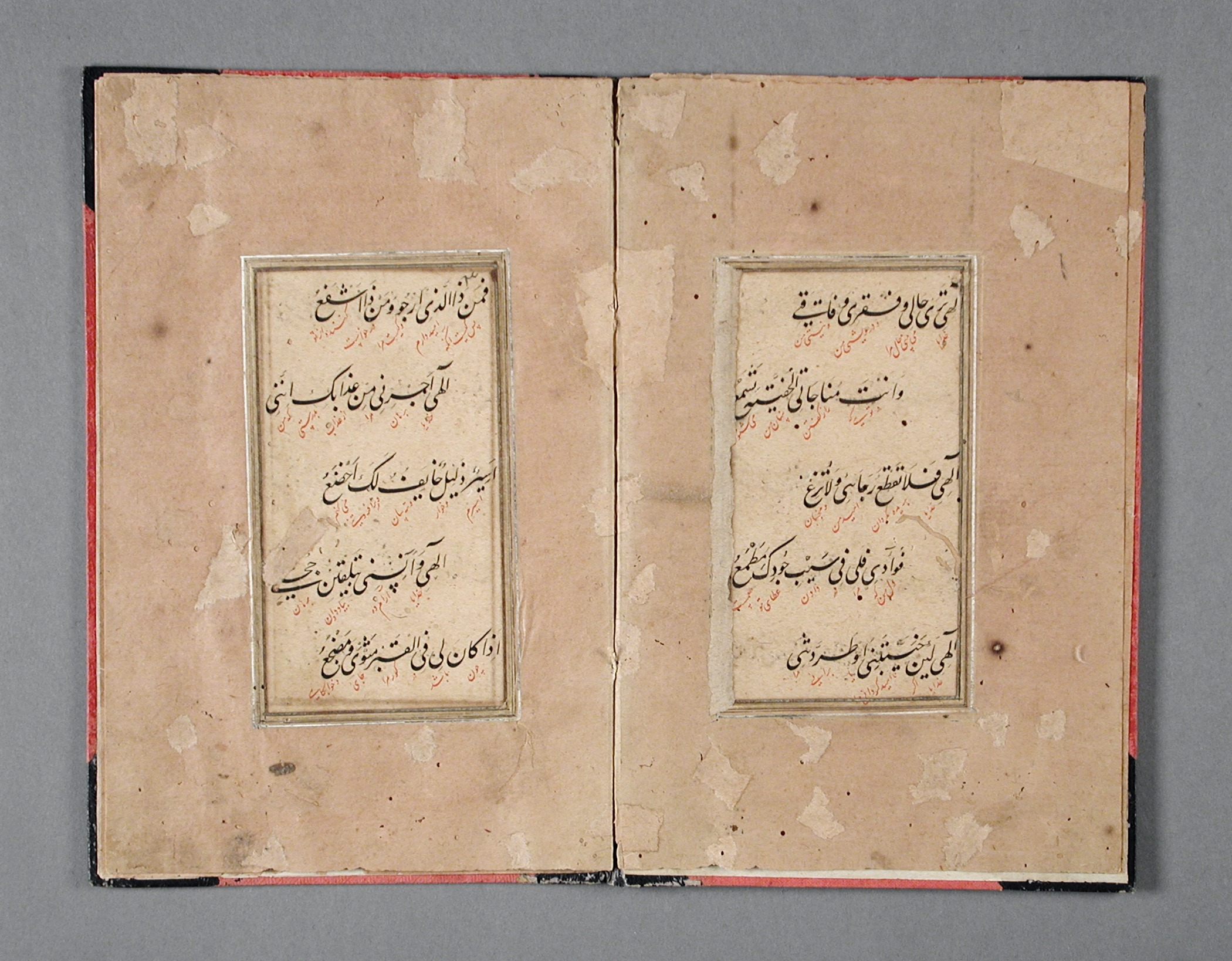 India, Rajasthan, Ajmer, 1615 Books Black and red ink and gold Sheet: 8 x 5 1/8 in. (20.32 x 13.02 cm) each; Text: 4 1/4 x 2 3/8 in. (10.8 x 6.03 cm) each; Cover: 8 1/4 x 5 5/16 in. (20.96 x 13.49 cm) each Indian Art Special Purpose Fund (M.87.21) South and Southeast Asian Art